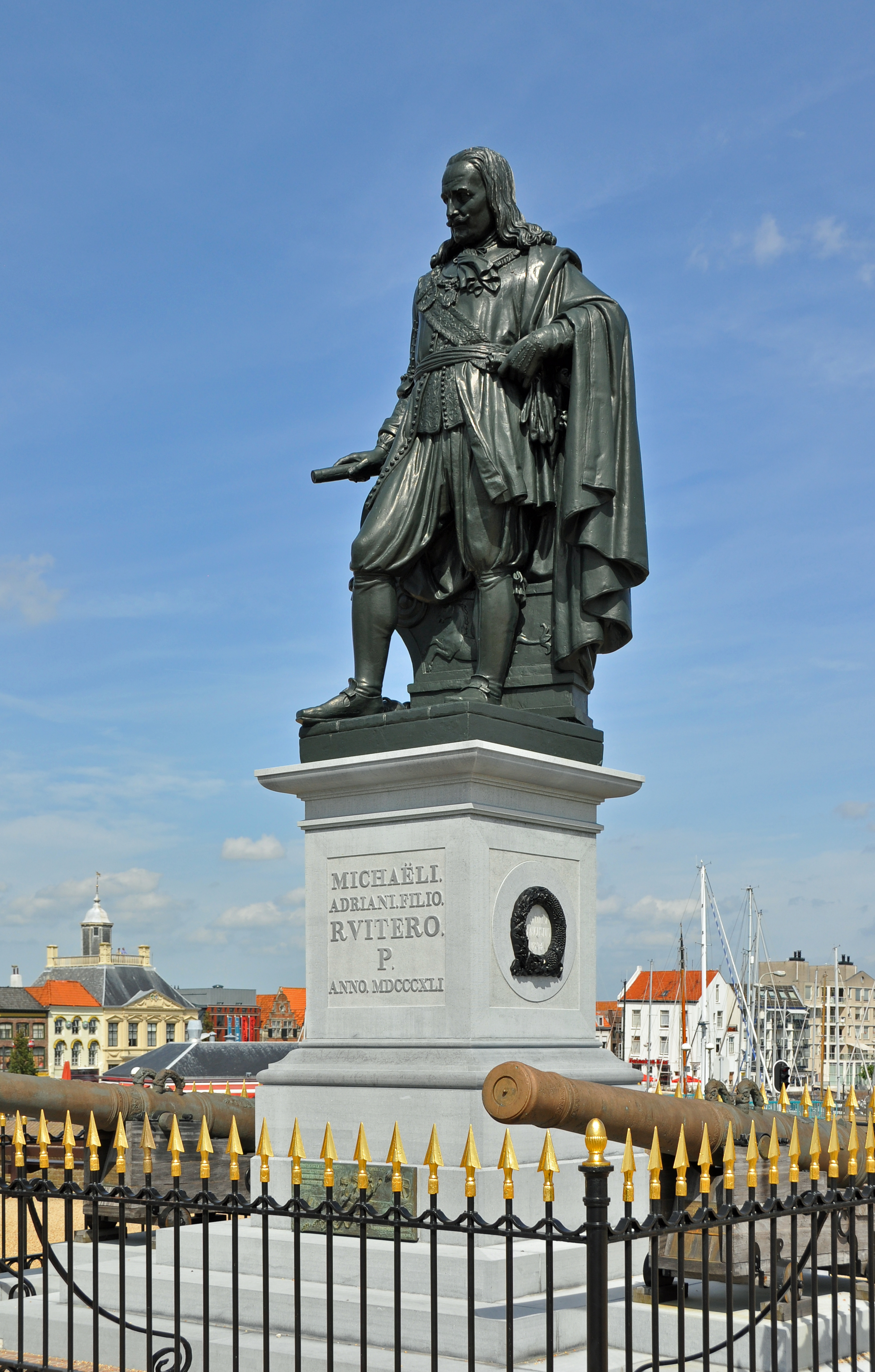 Vlissingen (the Netherlands): statue of Michiel de Ruyter